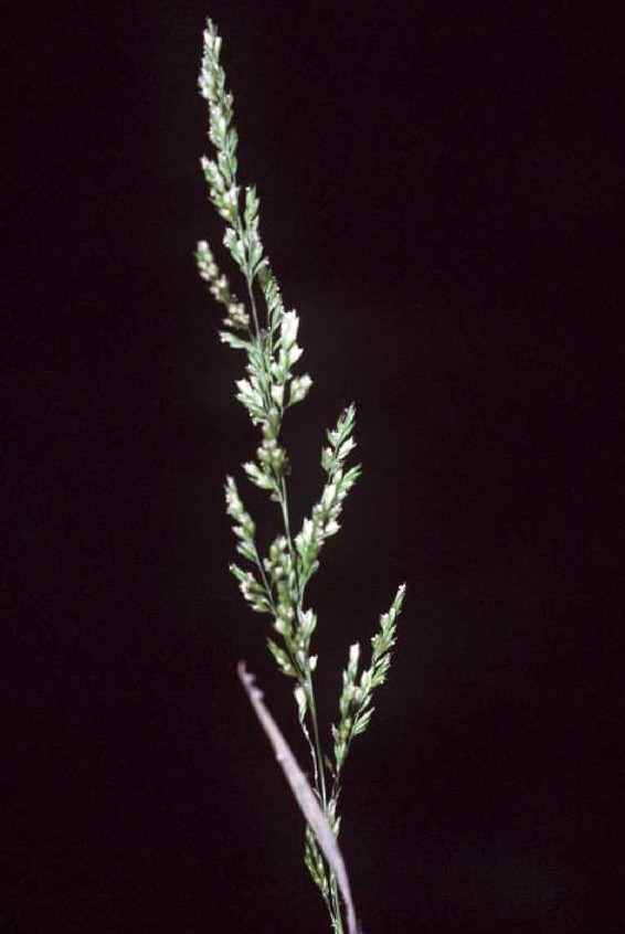 Sphenopholis obtusata — Prairie wedgescale. From Robert H. Mohlenbrock; USDA SCS. 1989. Midwest wetland flora: Field office illustrated guide to plant species. Midwest National Technical Center, Lincoln. Courtesy of USDA NRCS Wetland Science Institute.